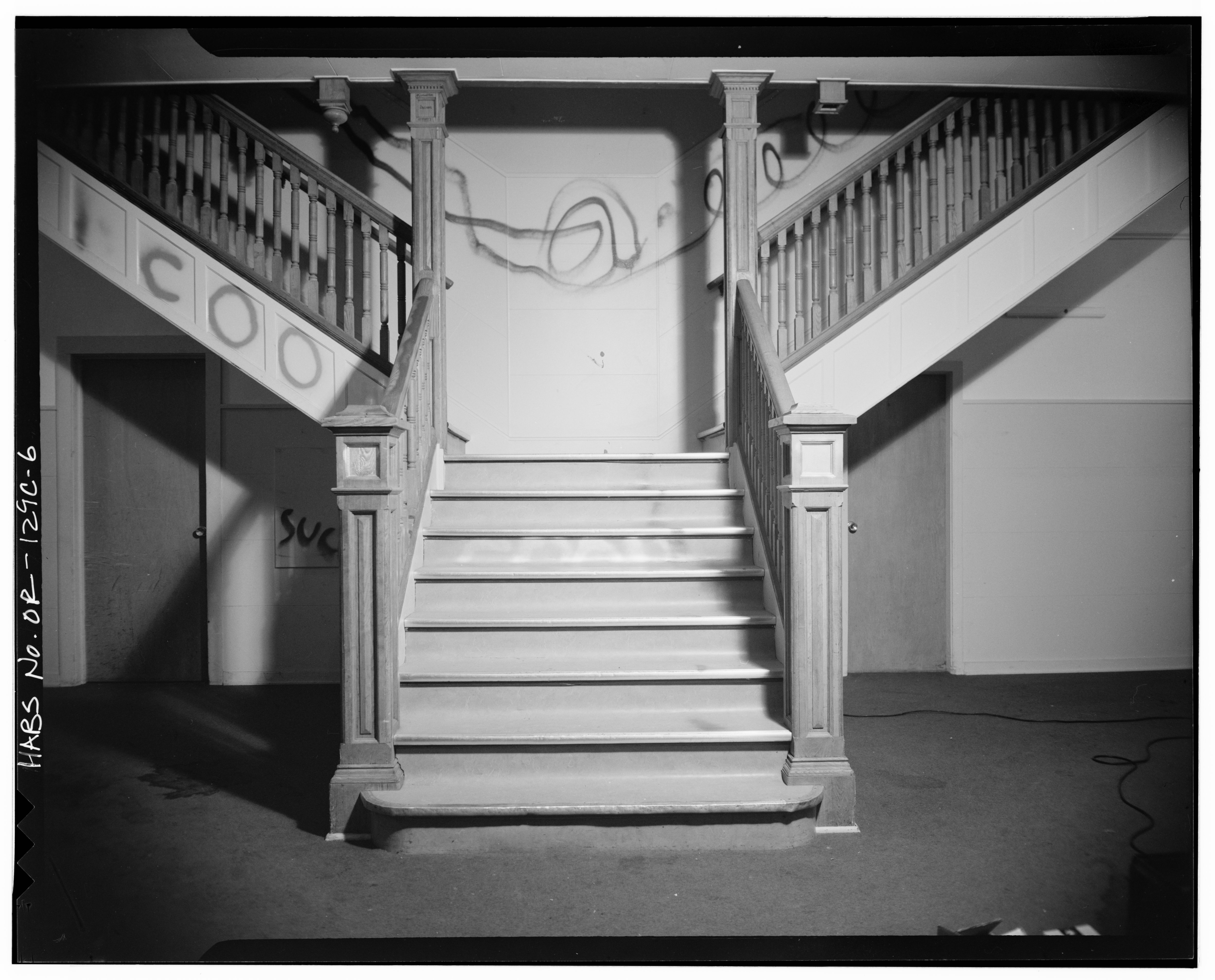 Chemawa Indian School, McBride Hall, 5495 Chugach Street Northeast, Salem, Marion County, OR CALL NUMBER: HABS ORE,24-SAL,1C- NOTE: Survey number HABS OR-129-C DIGID: CONTROL #: OR0042 LOC card text: "5495 Chugach St, N.E. Red brick on concrete foundations with wooden and stone trim, rectangular with center and end projections 114' (sixteen-bay front) x 35', two-and-a-half stories, hip and gable roofs with pedimented gable ends and gable dormers, denticulated cornice, three-bay hip-roof entrance porch with wooden railing, double doors with fanlight, segmental arched window heads with stone sills, brick belt course at sill level of each floor; dormitory, main stair with classical details. Built 1902; alterations to interior, n.d.; demolished 1978. 4 ext. photos (1977), 6 int. photos (1977). Also see Chemawa Indian School (OR-129). Card prepared 1979."